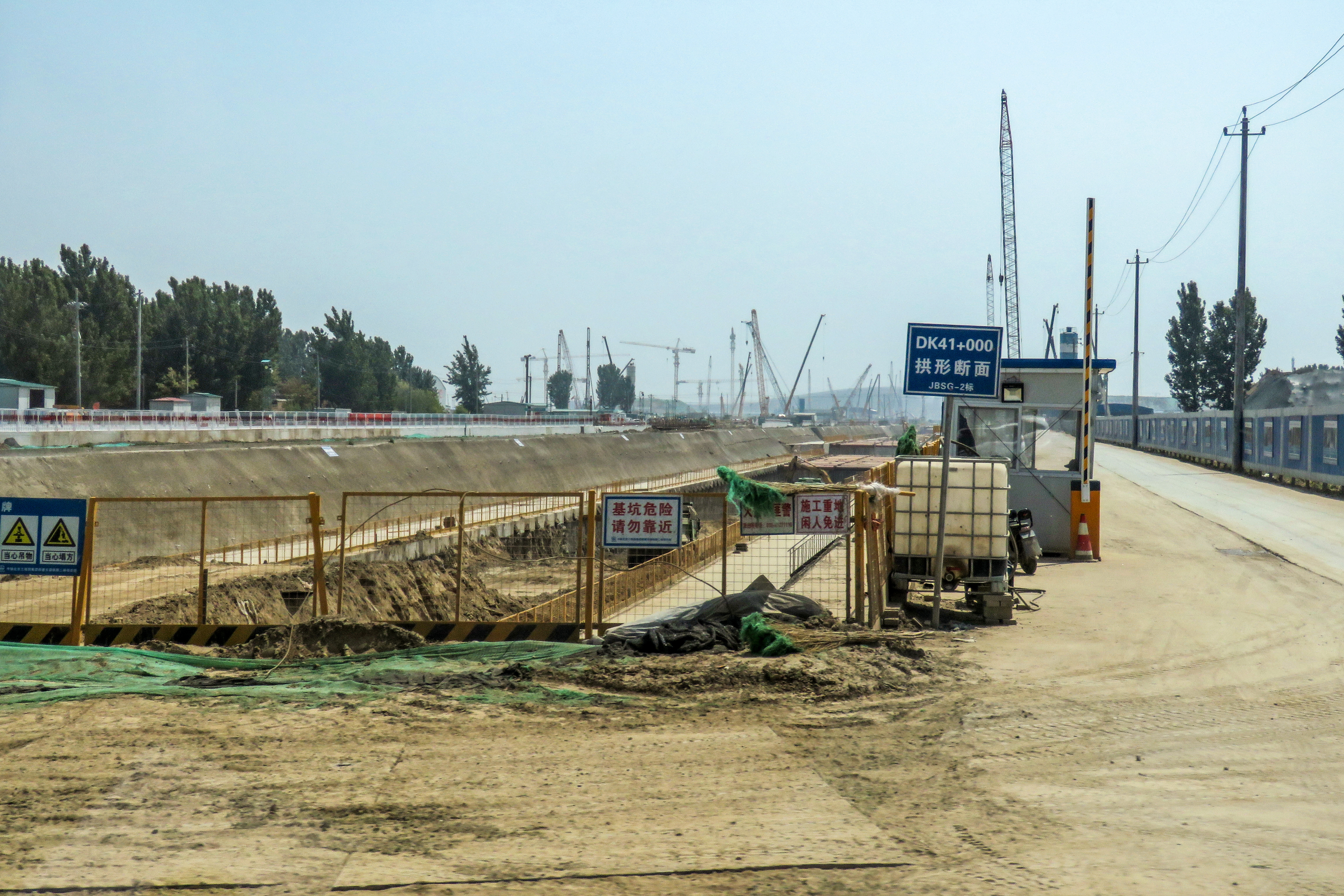 DK41+000, somewhere north of the new airport.